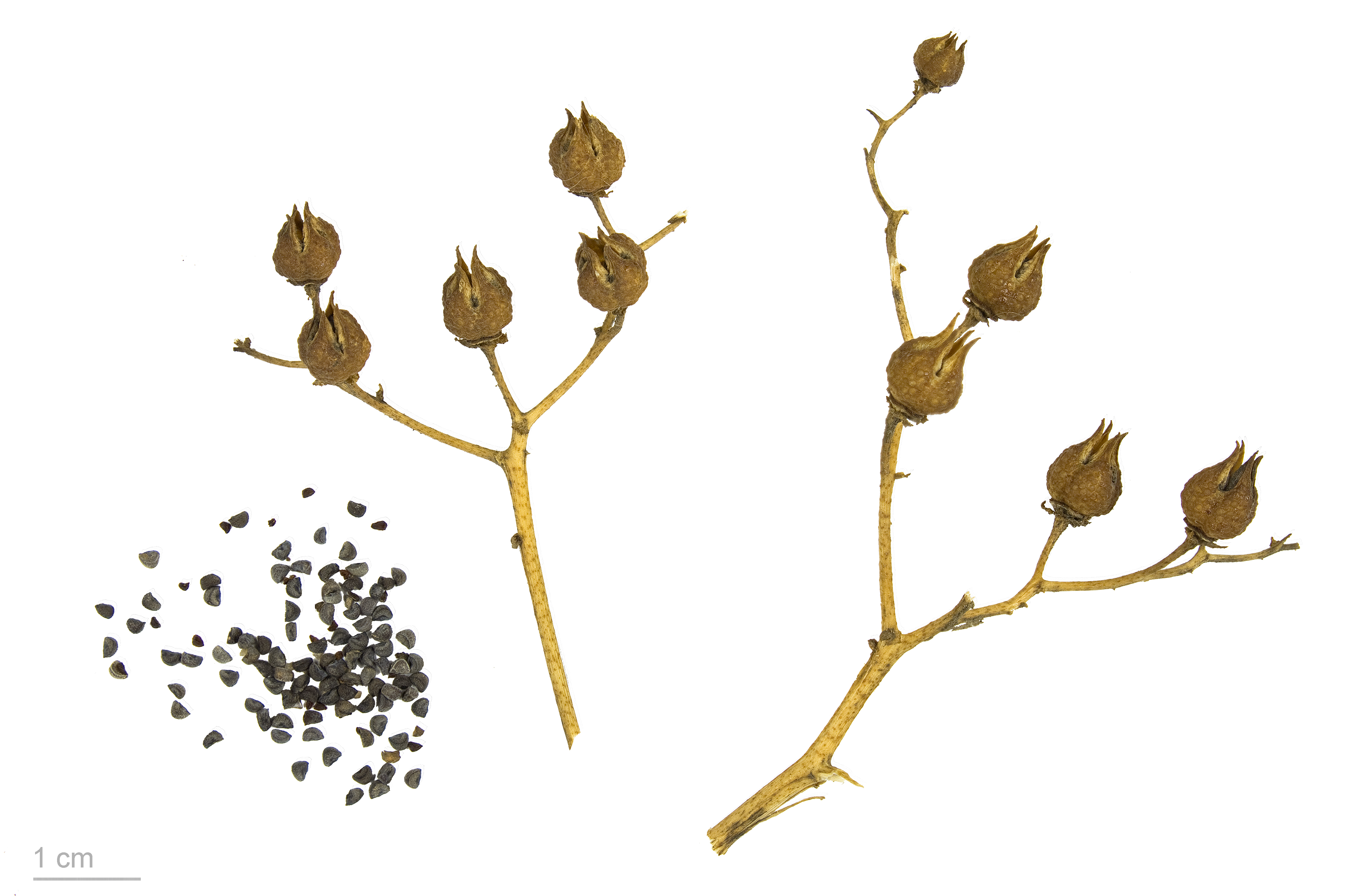 rue , fruits and seeds